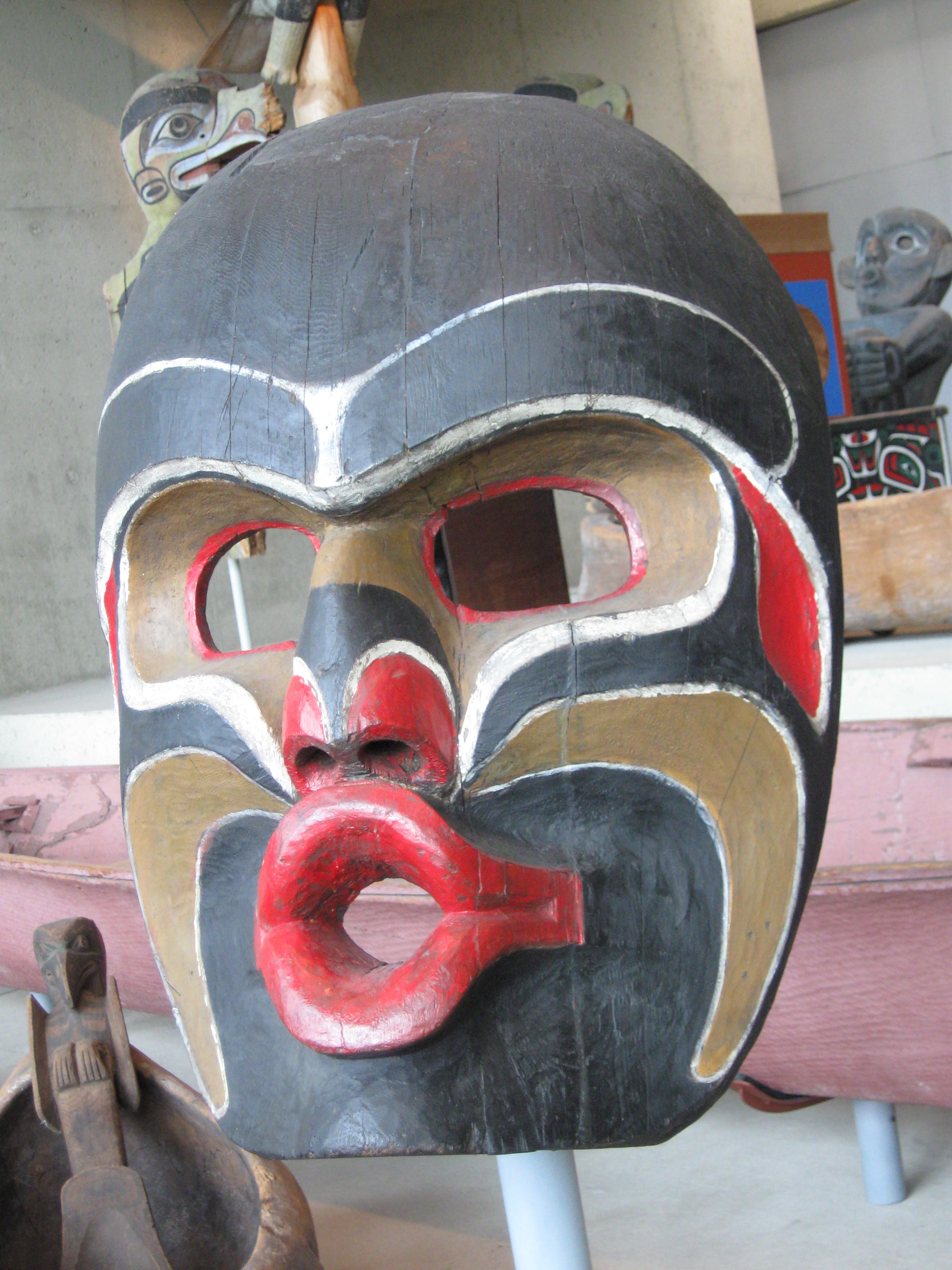 This exquisite cedar c.1900 Gugwame'sa Dzunuk'wa or "Face of Dzunuk'wa" item was a native Indian feast dish-cover. It features bright red paint and was purchased by UBC's Museum of Anthropology in 1953 where it is now on display. (Vancouver, Canada)